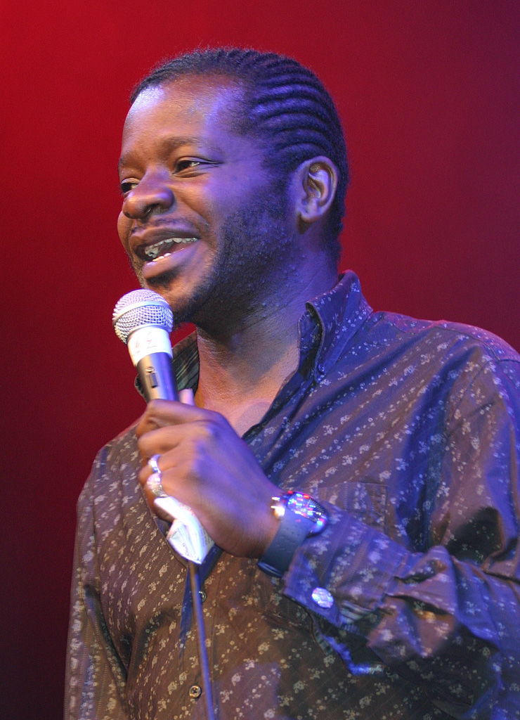 Photo taken at 2005 Edinburgh Fringe. Release to the public domain. Pixuk 10:50, 29 March 2007 (UTC)